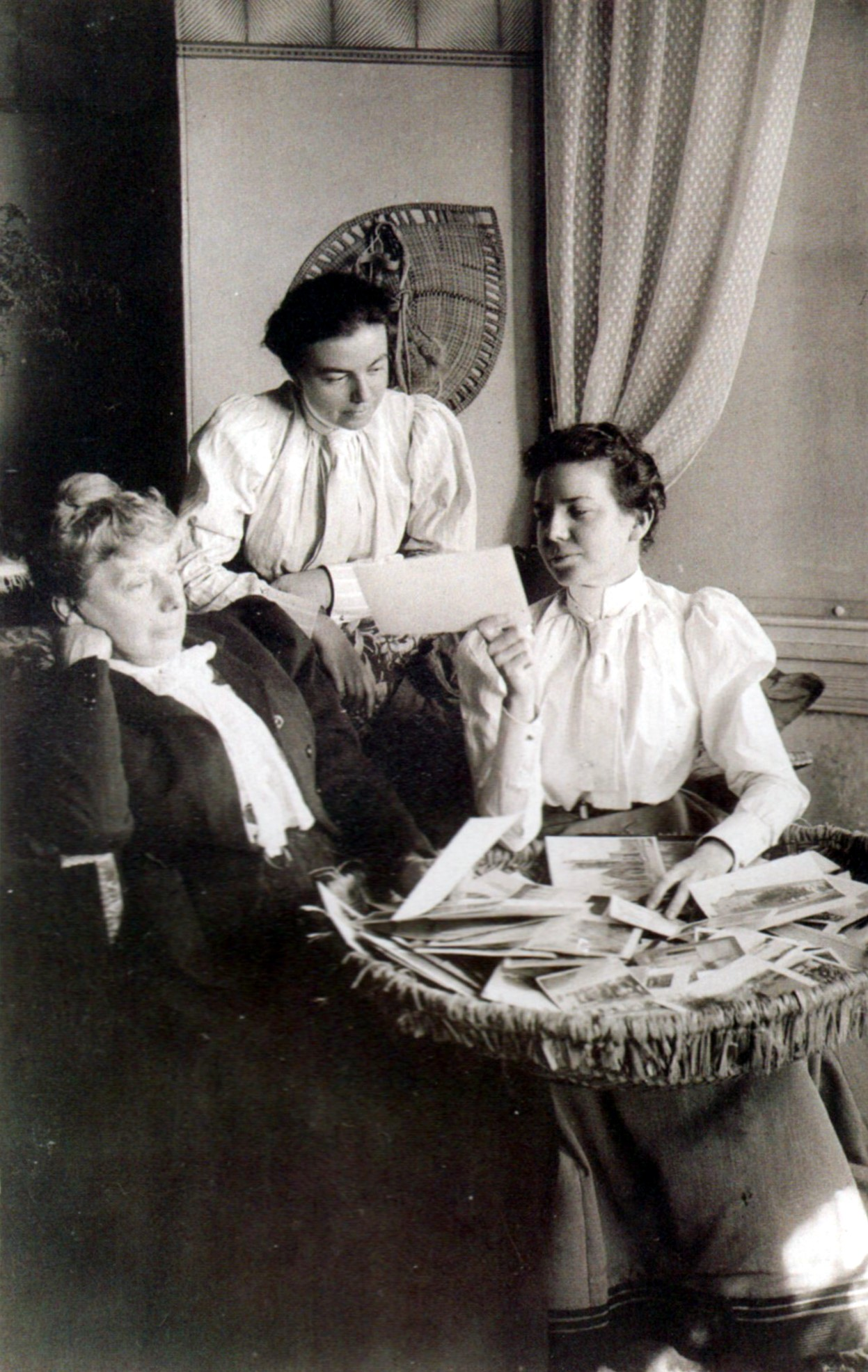 Photograph thought to be of Sarah Shearer (left) and unidentifed women